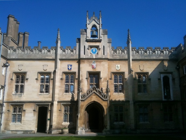 Sidney Sussex College chapel, taken at the start of the Easter holidays, 2011.